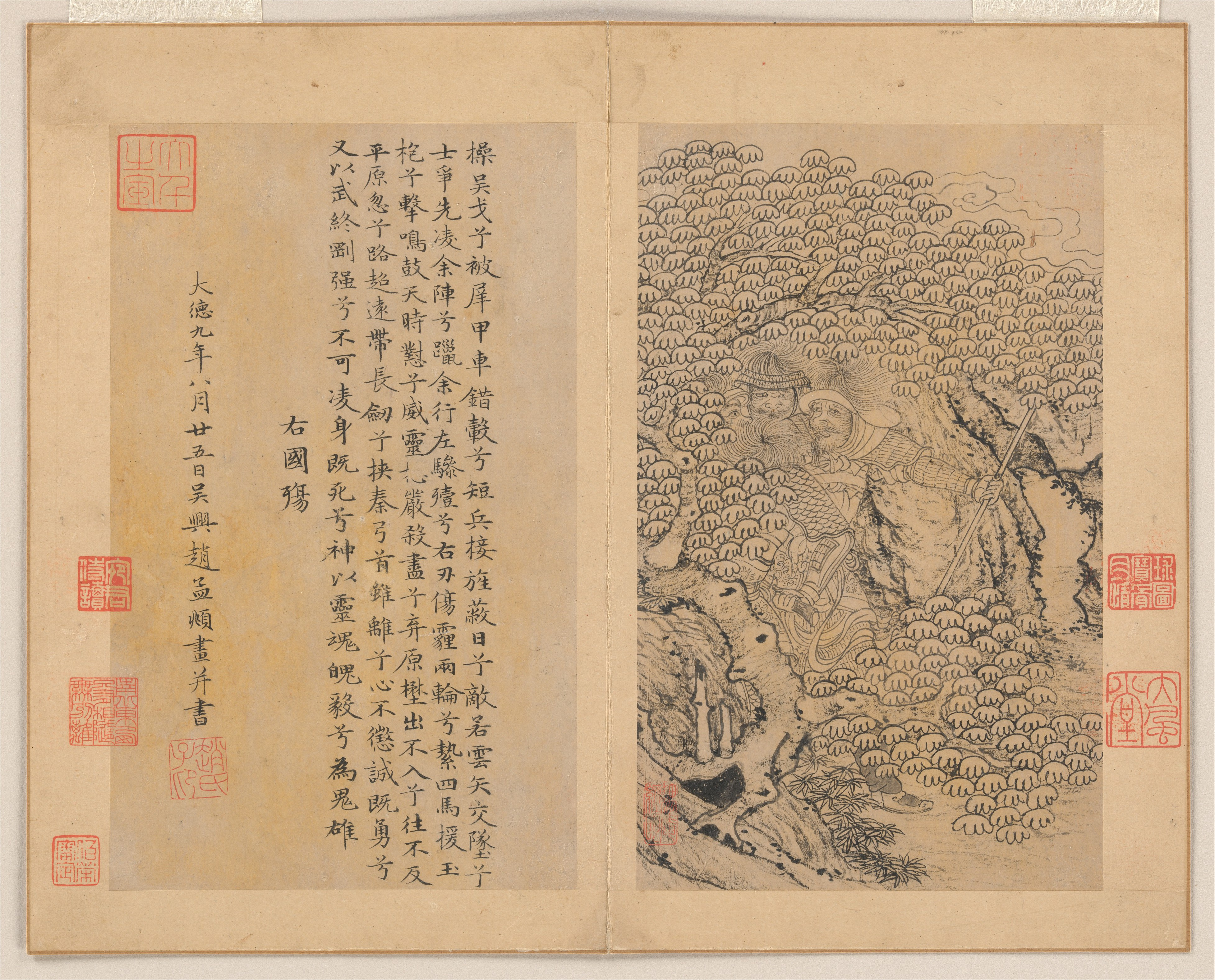 The Metropolitan Museum of Art states: The Nine Songs are lyrical, shamanistic incantations dedicated to nine classes of deities worshipped by the Chu people of south China during the first millennium B.C. The original text consists of eleven songs, ten of which are transcribed and illustrated here. The illustrations are preceded by a portrait of the poet Qu Yuan (343–277 B.C.), which is accompanied by an essay entitled "The Fisherman," recounting the poet's state of mind toward the end of his life. Zhao Mengfu's paintings for the Nine Songs in the baimiao, or "white-drawing" style, are based on compositions by Li Gonglin (ca. 1041–1106) and were a primary source for later fourteenth-century paintings of this theme by Zhang Wu (active 1333–65) and others. Because the calligraphy in the album does not compare with the best of Zhao Mengfu's writing, it is probable that these leaves represent close, reliable copies of Zhao's important work, executed during the fourteenth century. One leaf, "The Lord of Clouds," is a later replacement (no earlier than the seventeenth century).